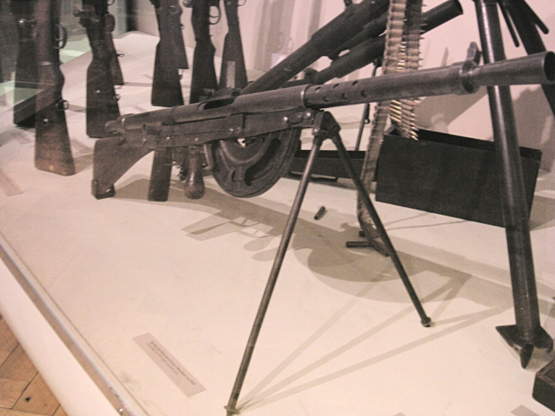 made during a summer day in Warsaw's Museum of the Polish Army; French Chauchat light machine gun